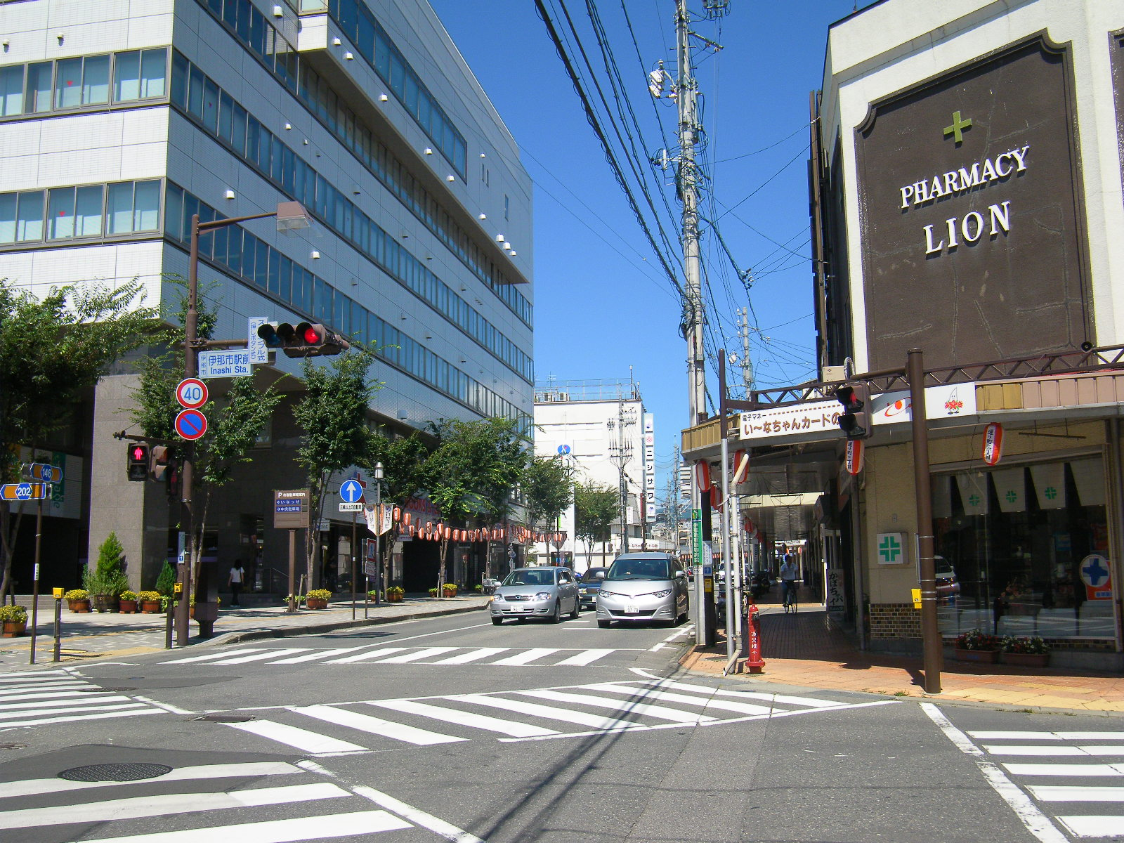 Nagano Prefectural Road 146, Minami-Minowa Sawando Line. Northward from the Inashi Station Crossroads. Tōrimachi street of Arai, Ina, Nagano prefecture, Japan.